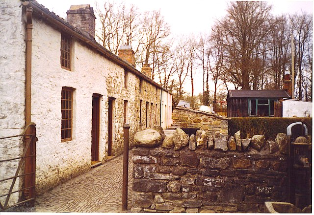 Iron Workers' Row, Museum of Welsh Life. This row first saw the light of day in Merthyr Tydfil about 1800. Today, they house a historical range of household furnishings - oldest at 1805 nearest the camera, newest at 1985 furthest away. Over the cobbled lane, in front of the terraced row, are the gardens. Here are two pictures showing the interior of these houses in 1805 659405 and c1900 659421 style.